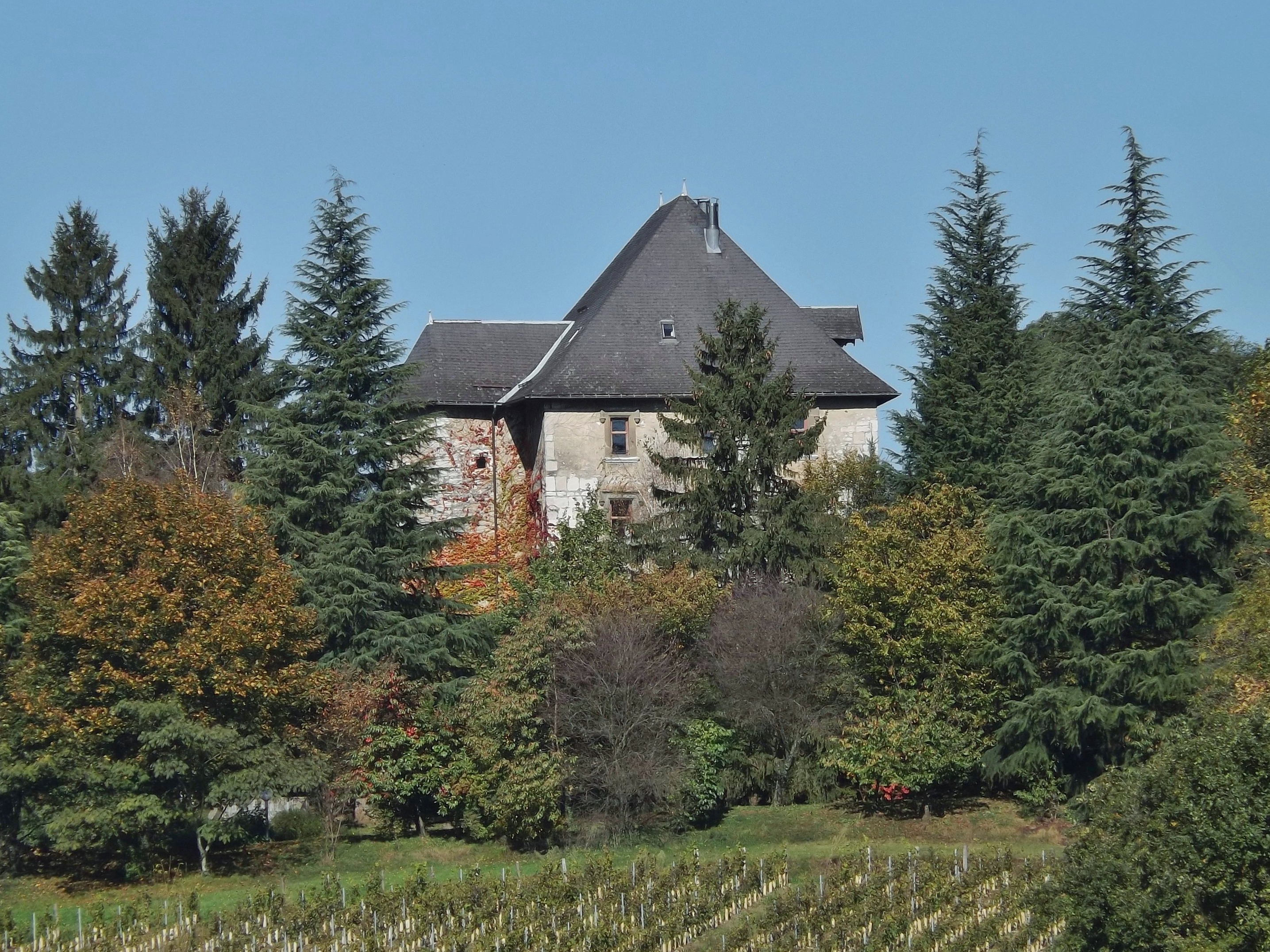 Sight of the château de Candie castle, in Chambéry-le-Vieux neighborhood of Chambéry, Savoie, France.